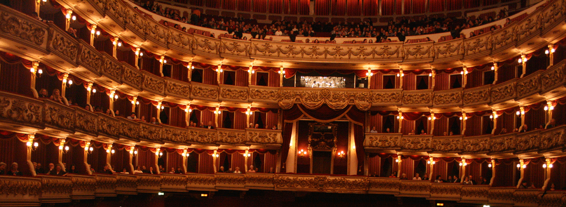 Filarmonico